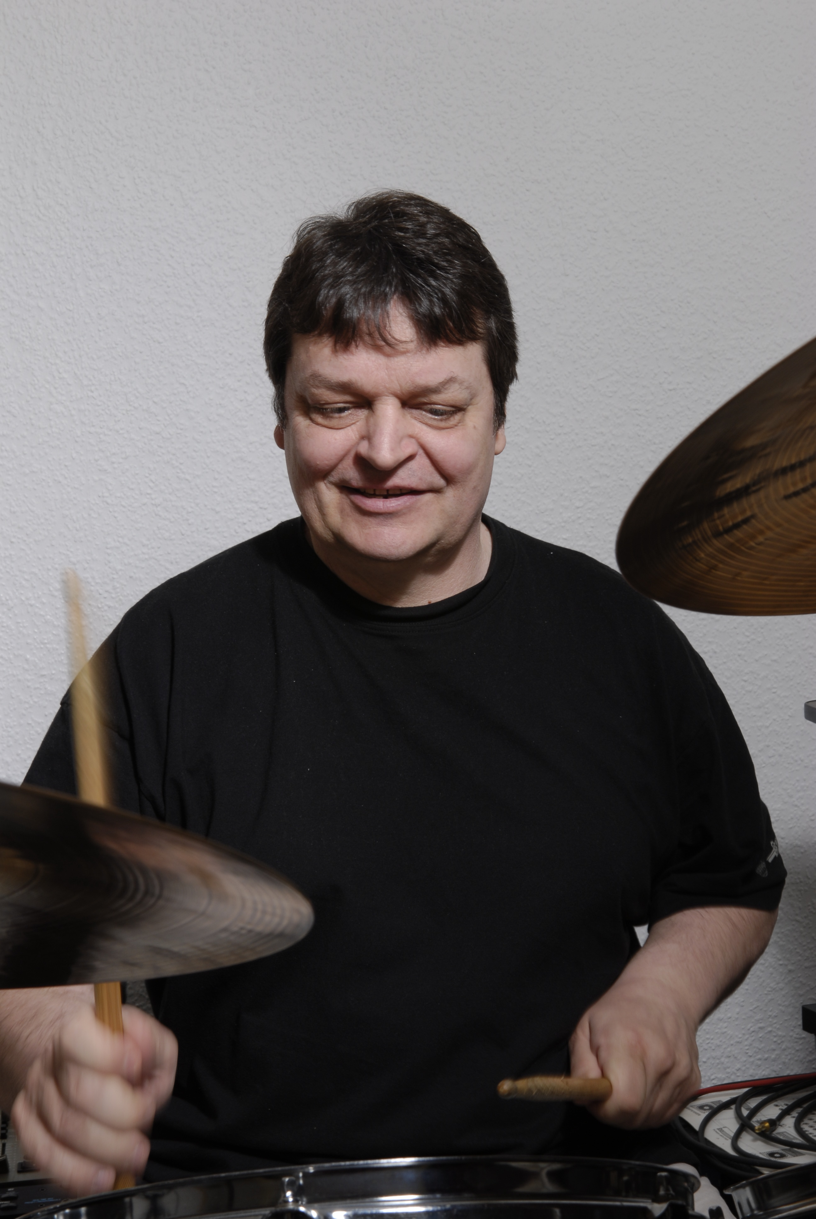 A photograph of the German drummer Friedhelm Nieske